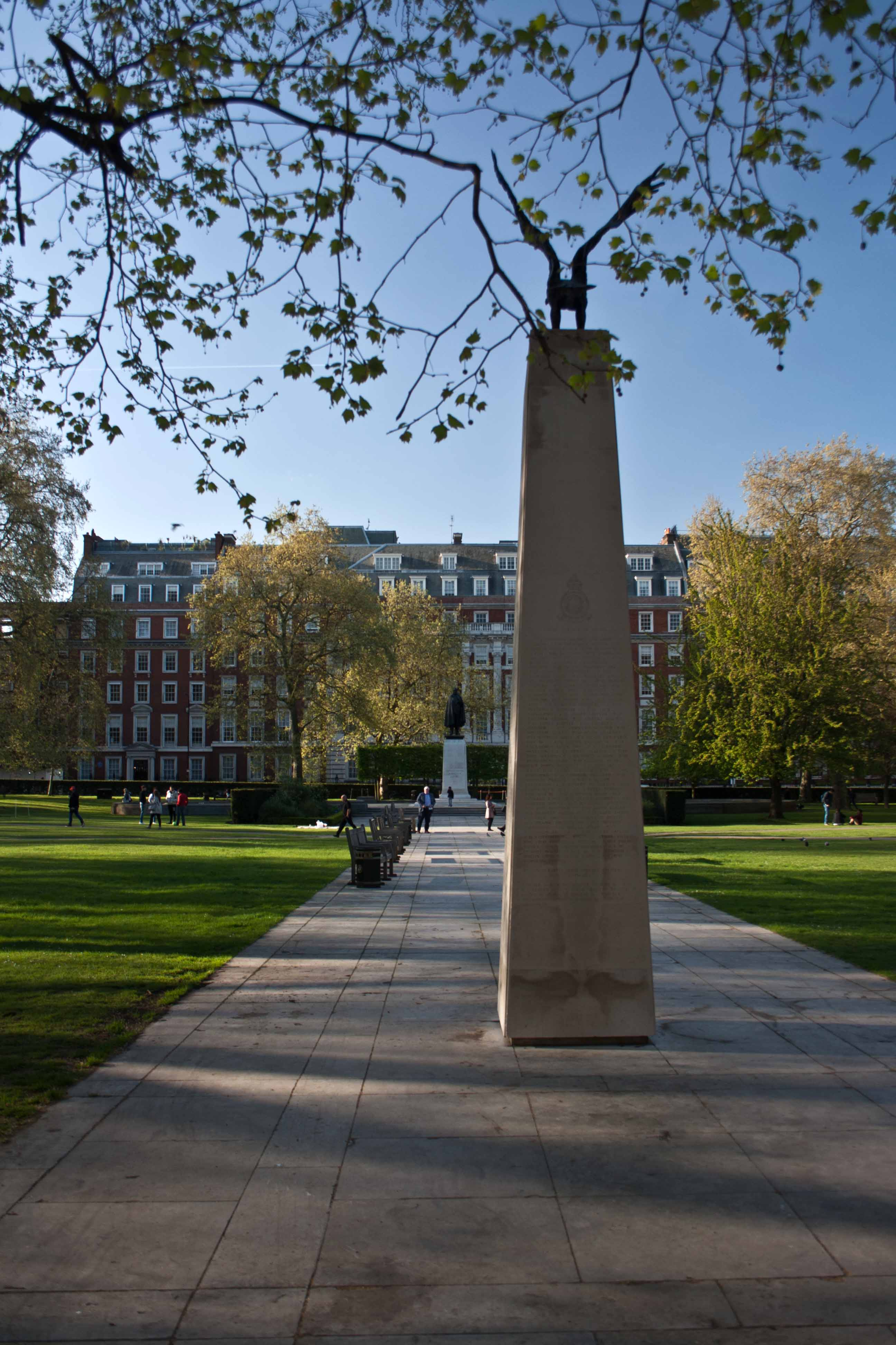 The US Embassy is on Grosvenor Square. The far statue is of FDR. The memorial with the eagle has the following inscription: This memorial is to the memory of the 244 American and 16 British fighter pilots and other personnel who served in the three Royal Air Force Eagle squadrons prior to the participation of the United States of America in the Second World War.